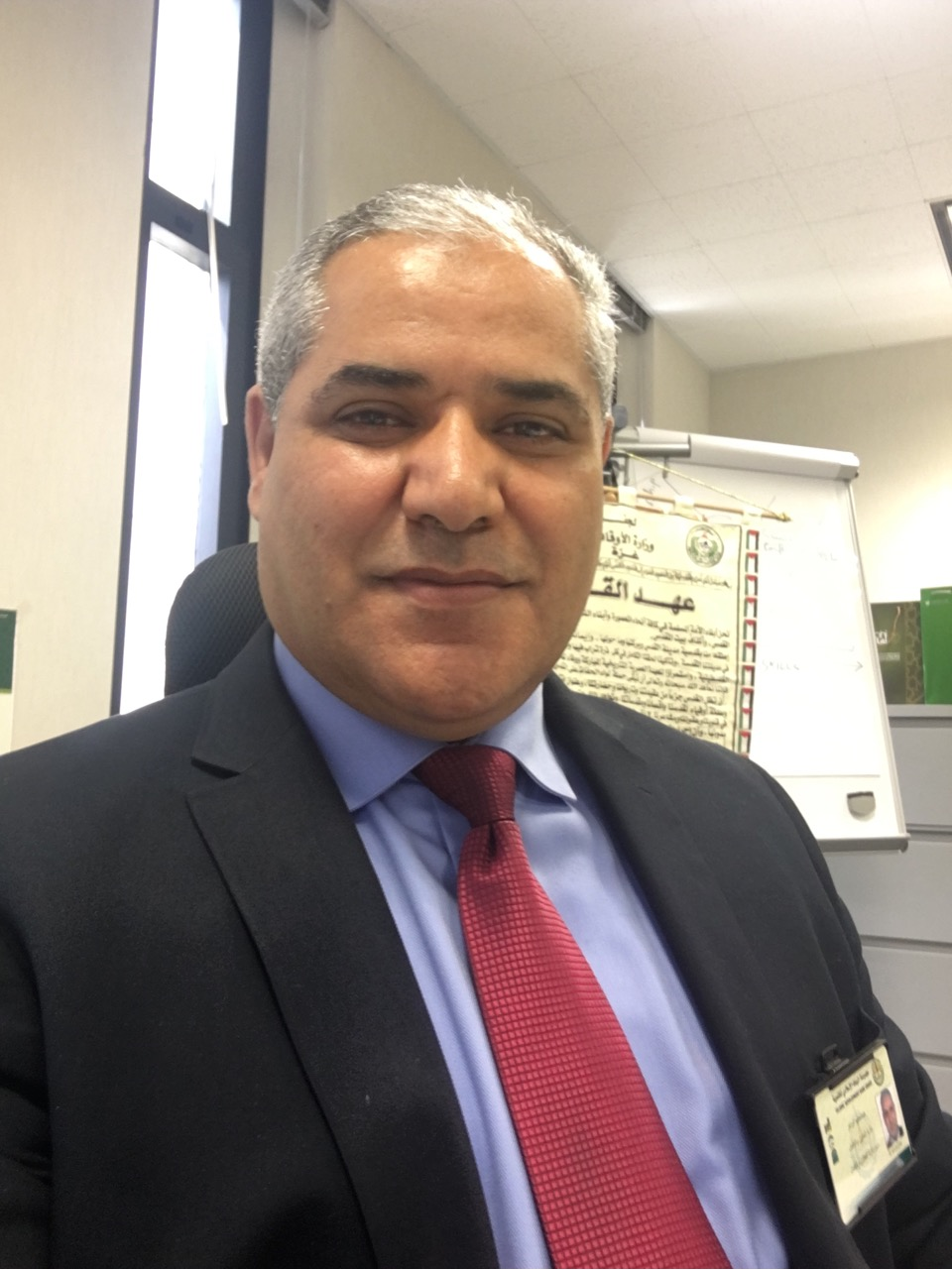 Nomination for the post of Vice President of the African Union Commission.